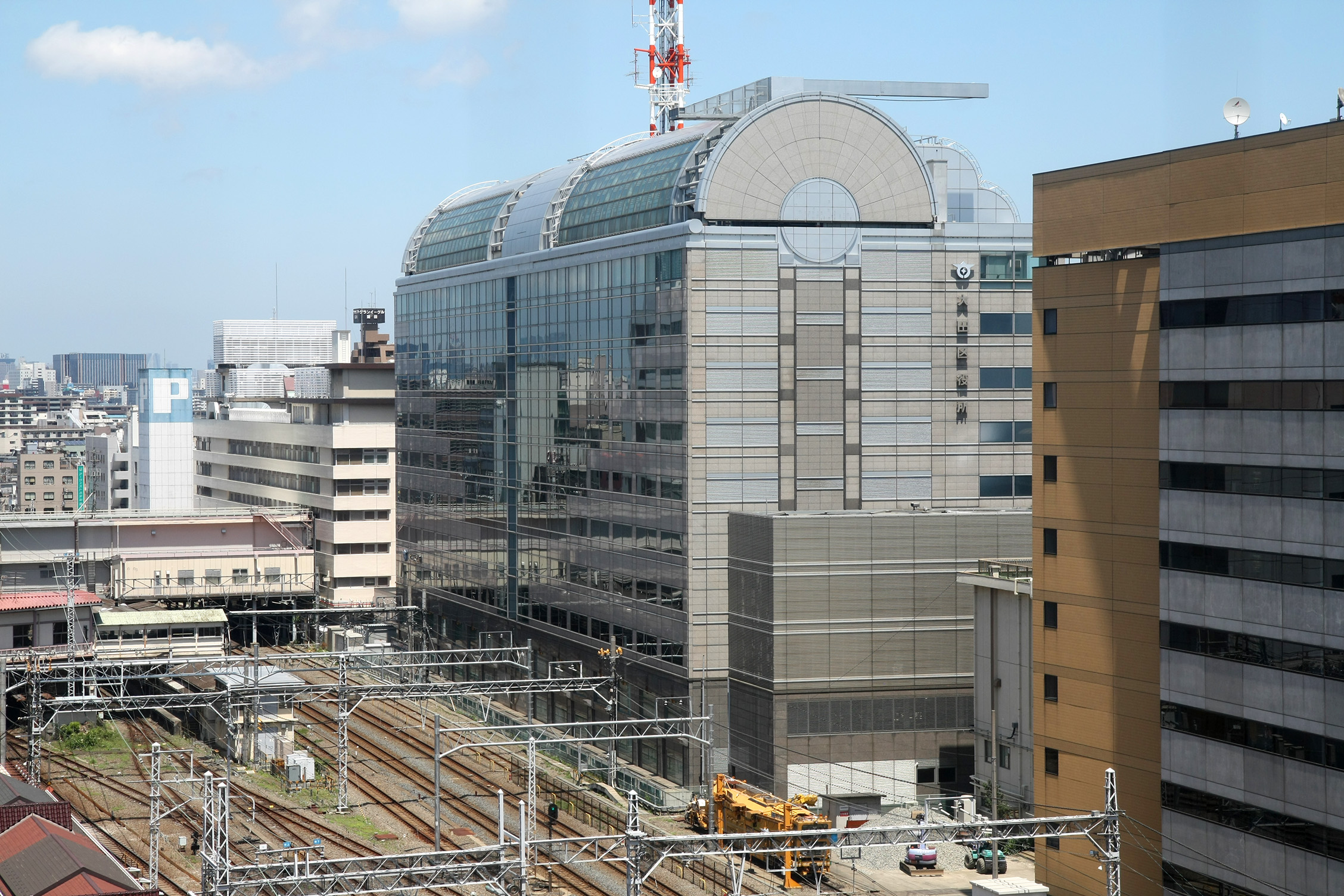 Ota City Hall